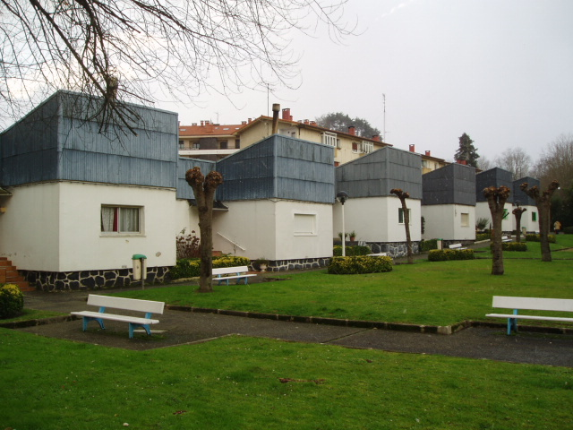 Public housing in Zarautz (Gipuzkoa).